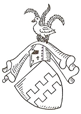 Coat of arms of the german family „von Studnitz“